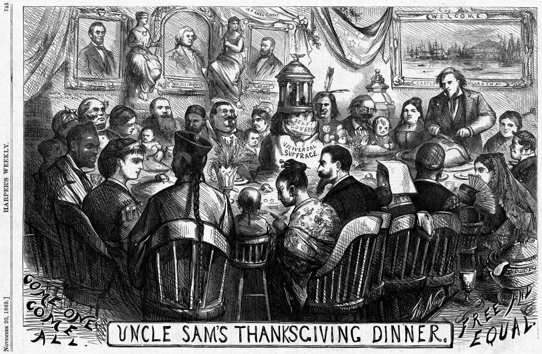 Uncle Sam's Thanksgiving Dinner (November 1869), by Thomas Nast.